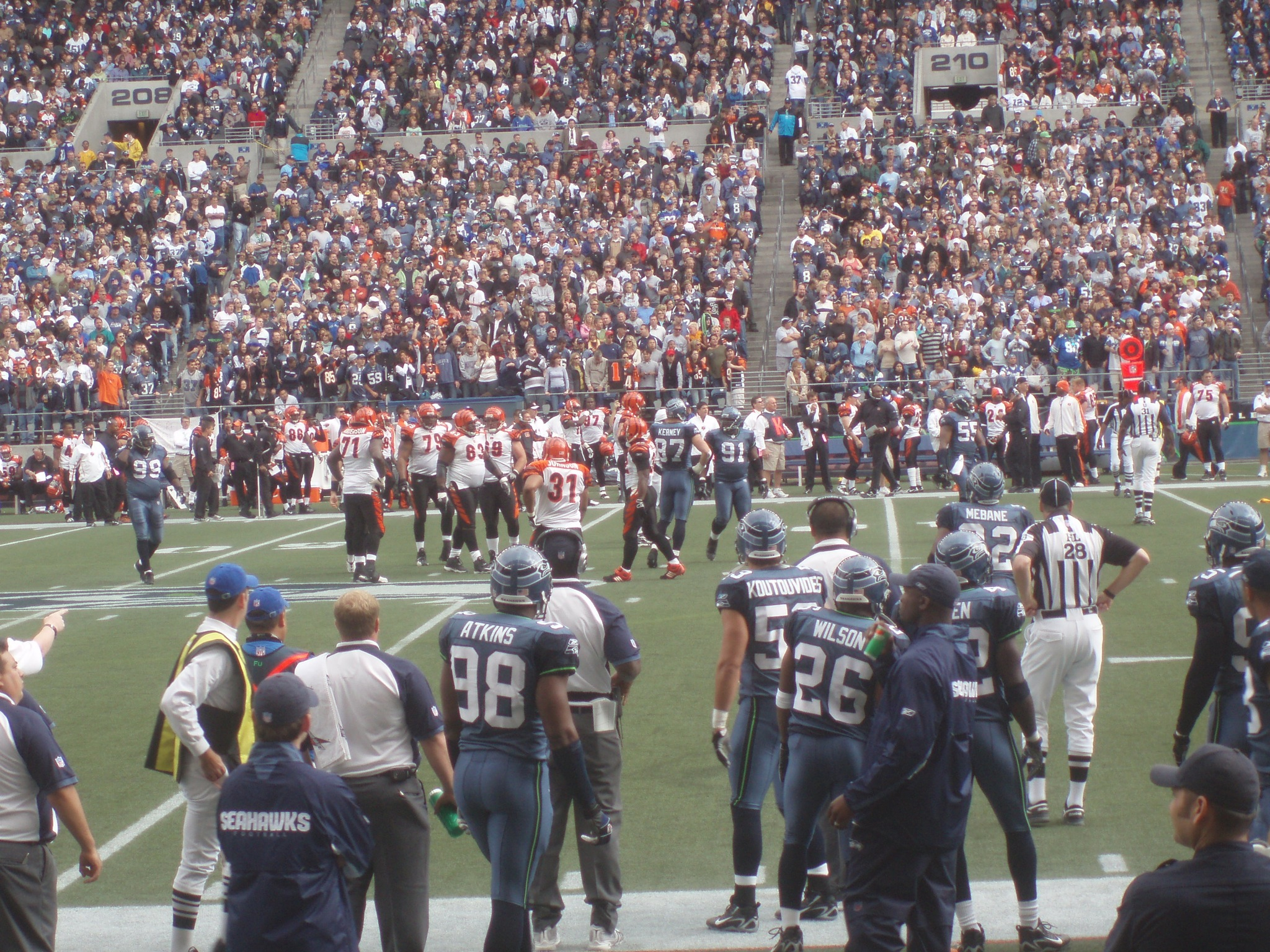 Scene from football game between Cincinnati Bengals and Seattle Seahawks, 9/23/2007